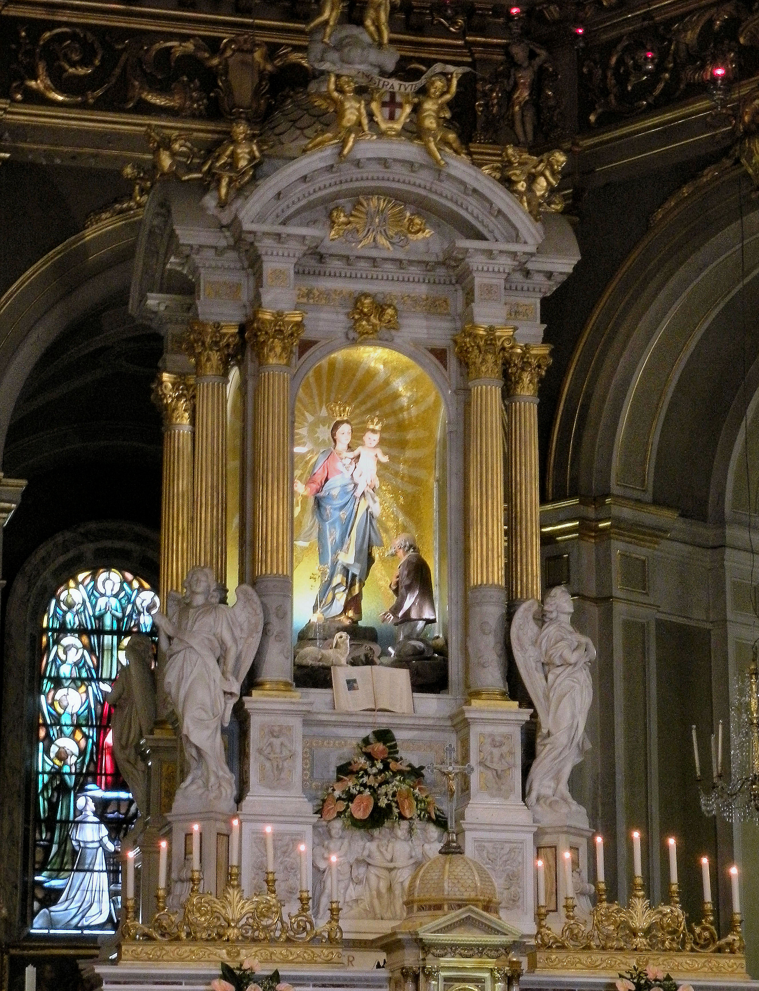 Ceranesi (province of Genoa, Italy), shrine of Our Lady of Guardia, altar and statue of Madonna